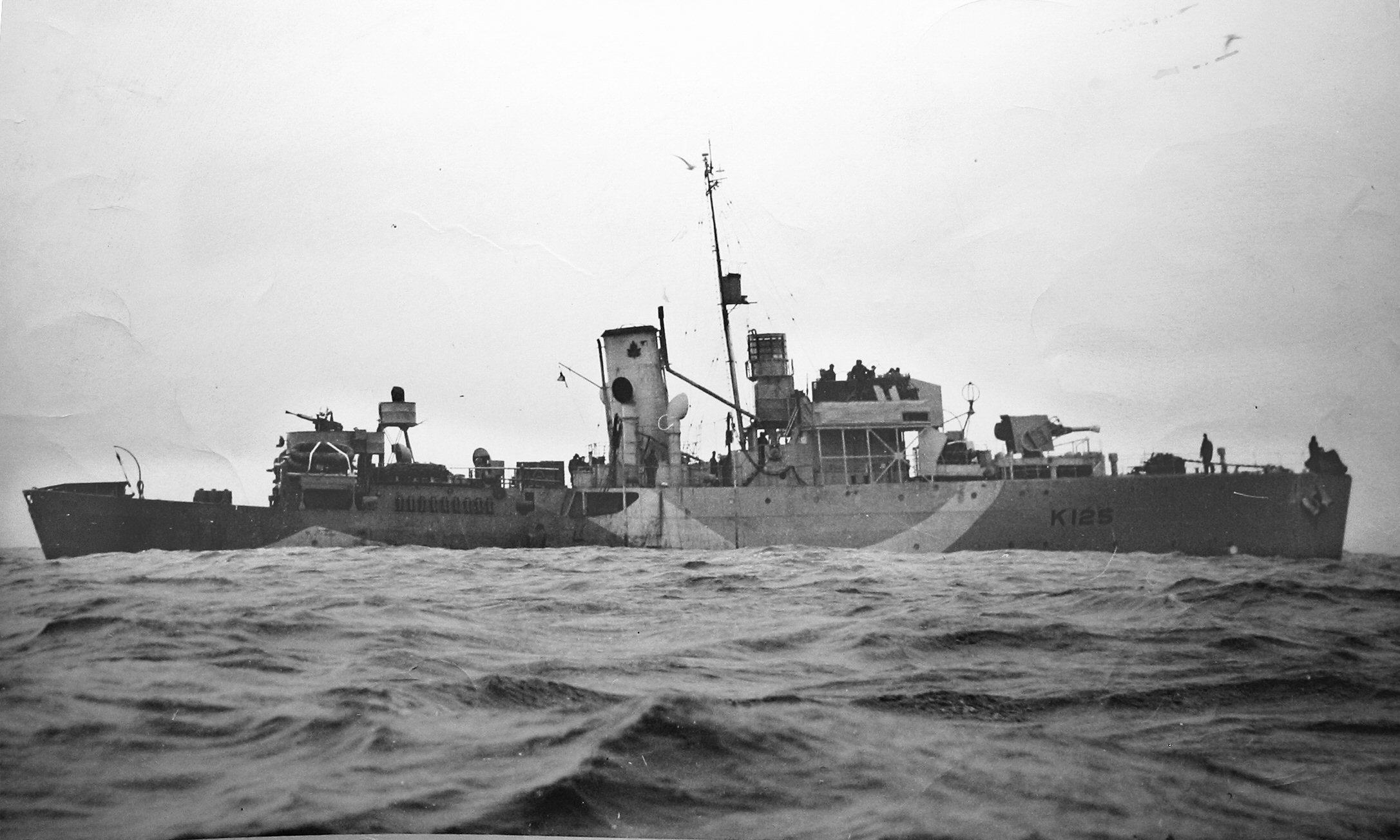 Canadian Flower-class corvette HMCS Kenogami (K125), probably taken c. 1944–45, by Cece McLennan, crewman aboard the ship